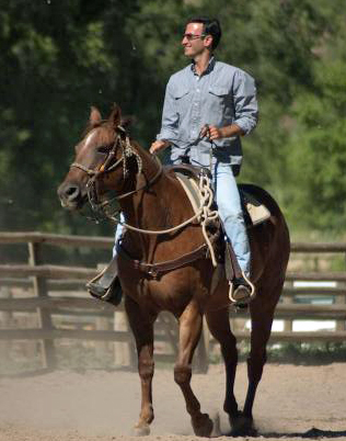 Peter Orszag at the Sylvandale Ranch, CO in July 2010